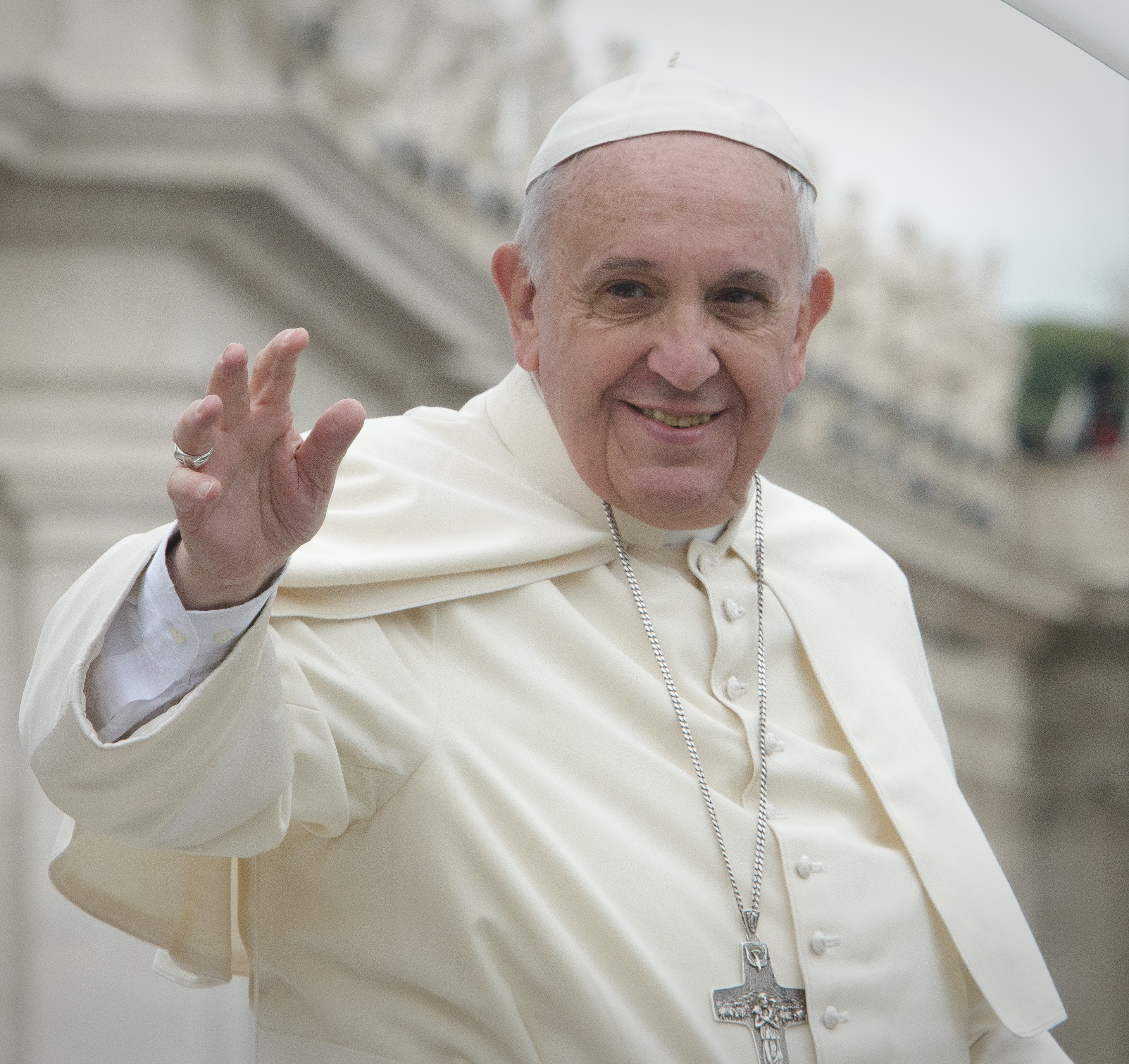 ROME,VATICAN 27 APRIL: "Images taken from what will go down in history as one of the largest and most important days in current history. The Canonization of Blessed Pope John XXIII and Blessed Pope John Paul II. Two beloved Popes from the 20th Century."